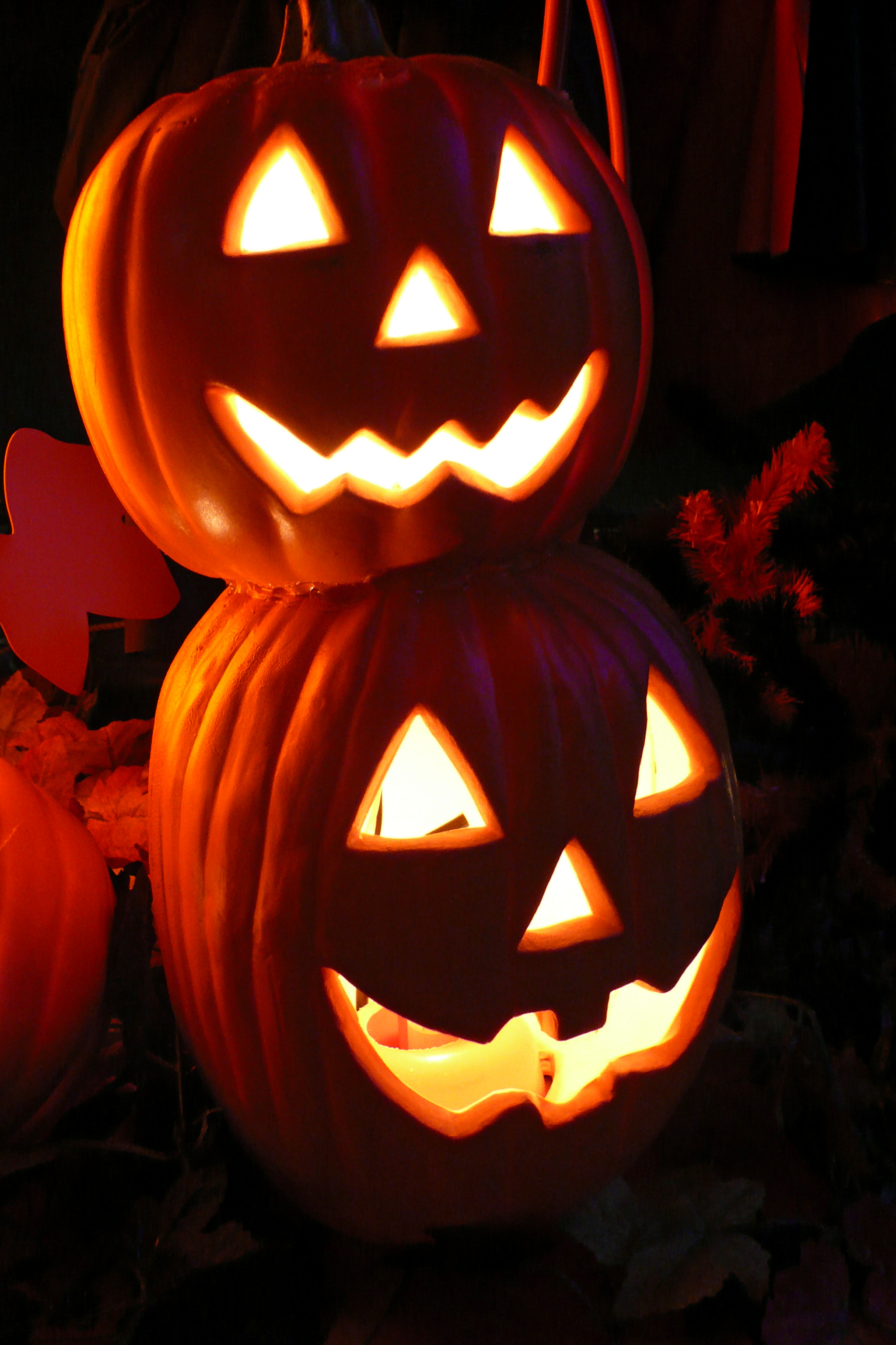 "MOSAIC" of Harborland in Kobe, Hyogo prefecture, Japan